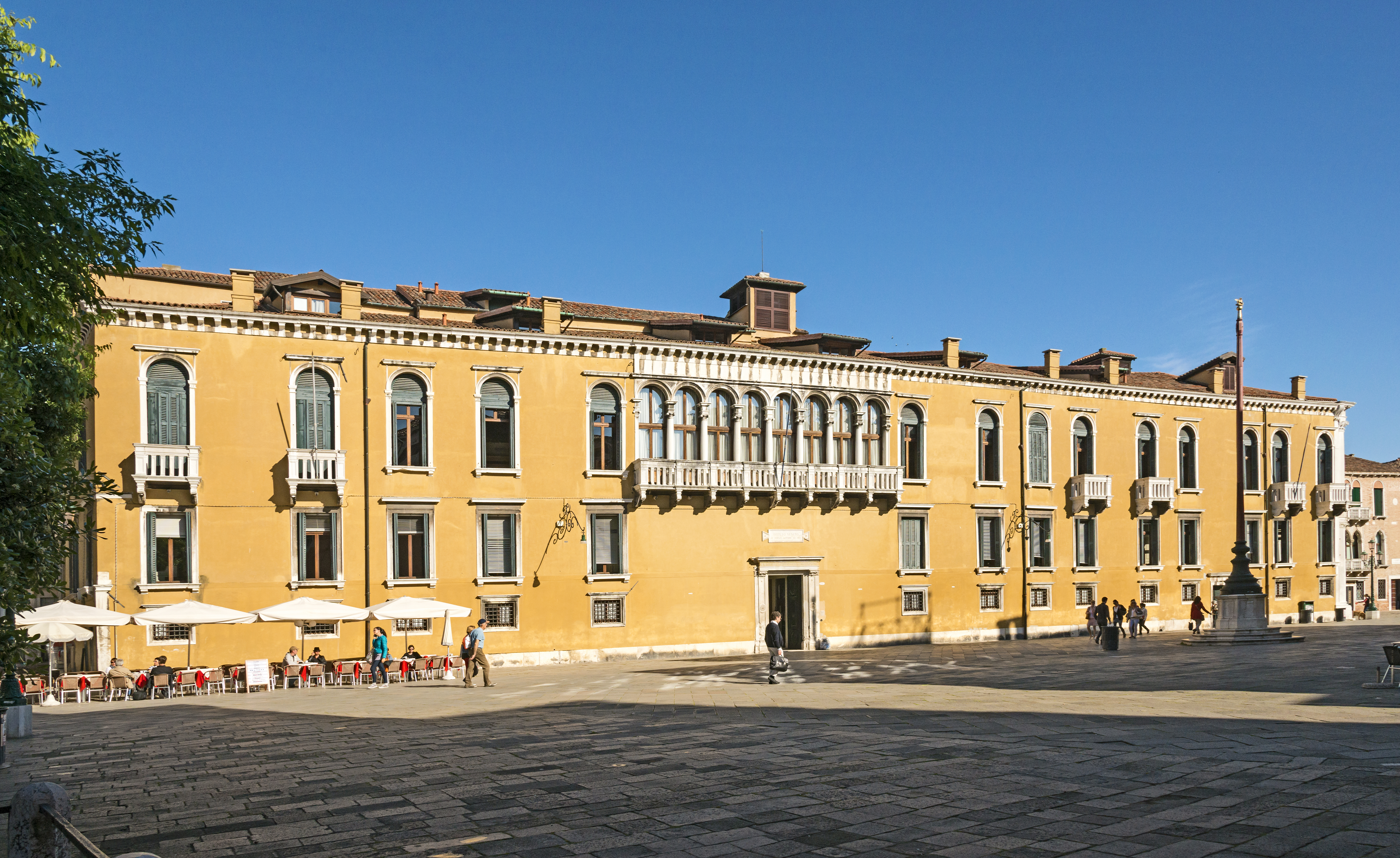 Palazzo Loredan in Campo Santo Stefano in Venice. Venetian Institute of Sciences, Letters and Arts. Main facade